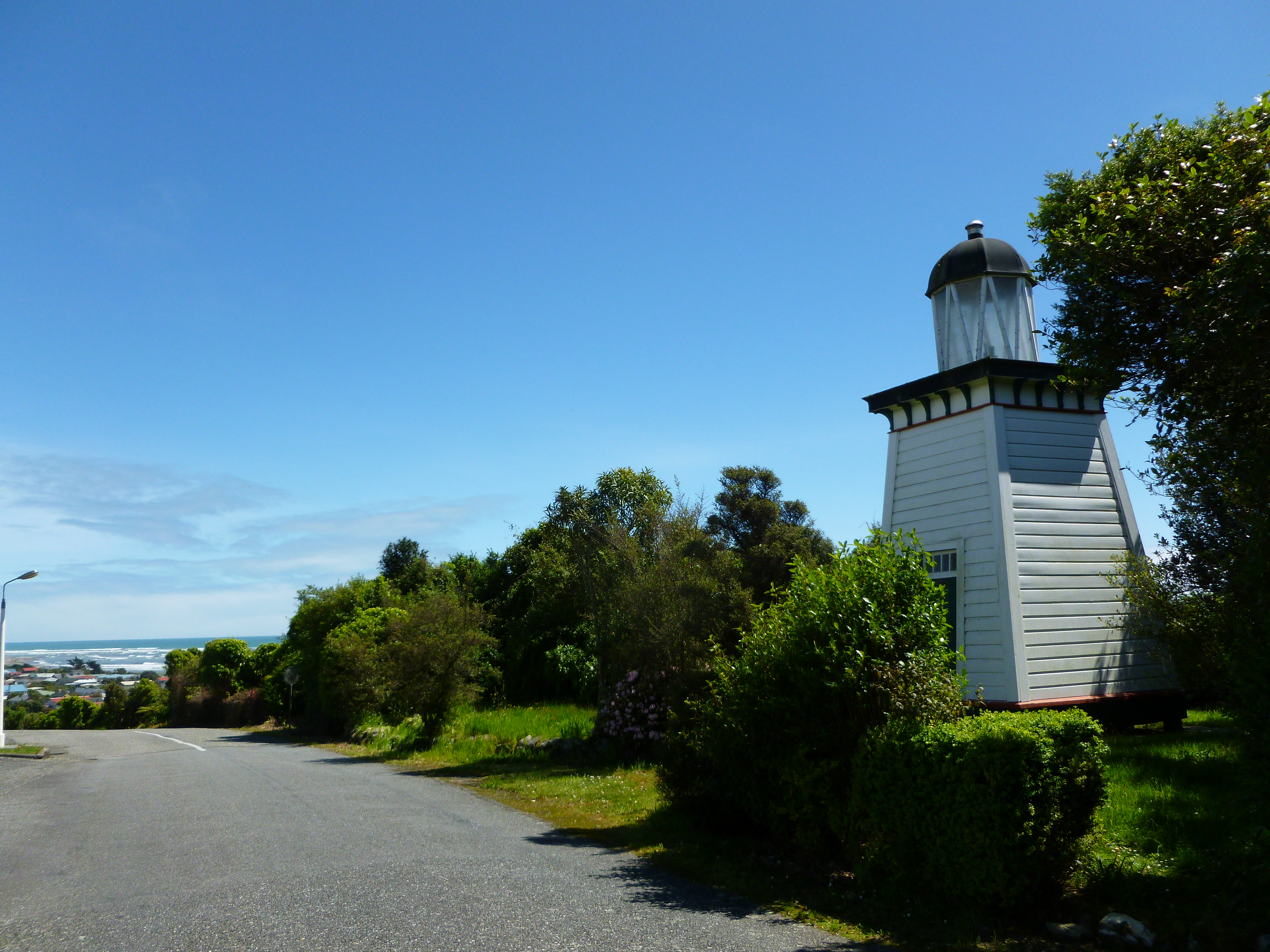 It operated as a lighthouse from 1879-1924. Once scheduled for demolition, it found new leases of life as an observation tower for Seaview Asylum and as a coast watch station during WWII.